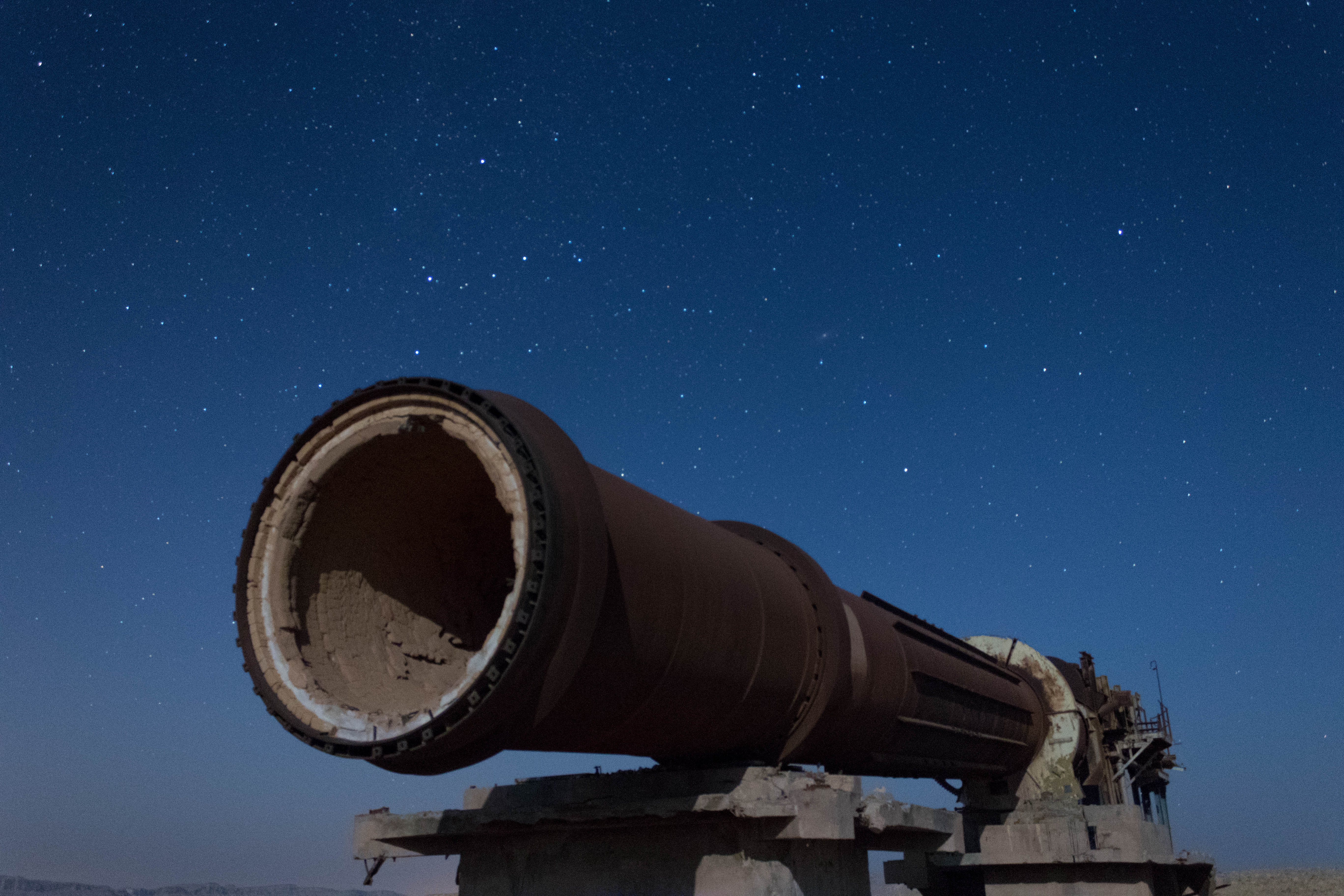 old oven. Ramon Crater, Israel.